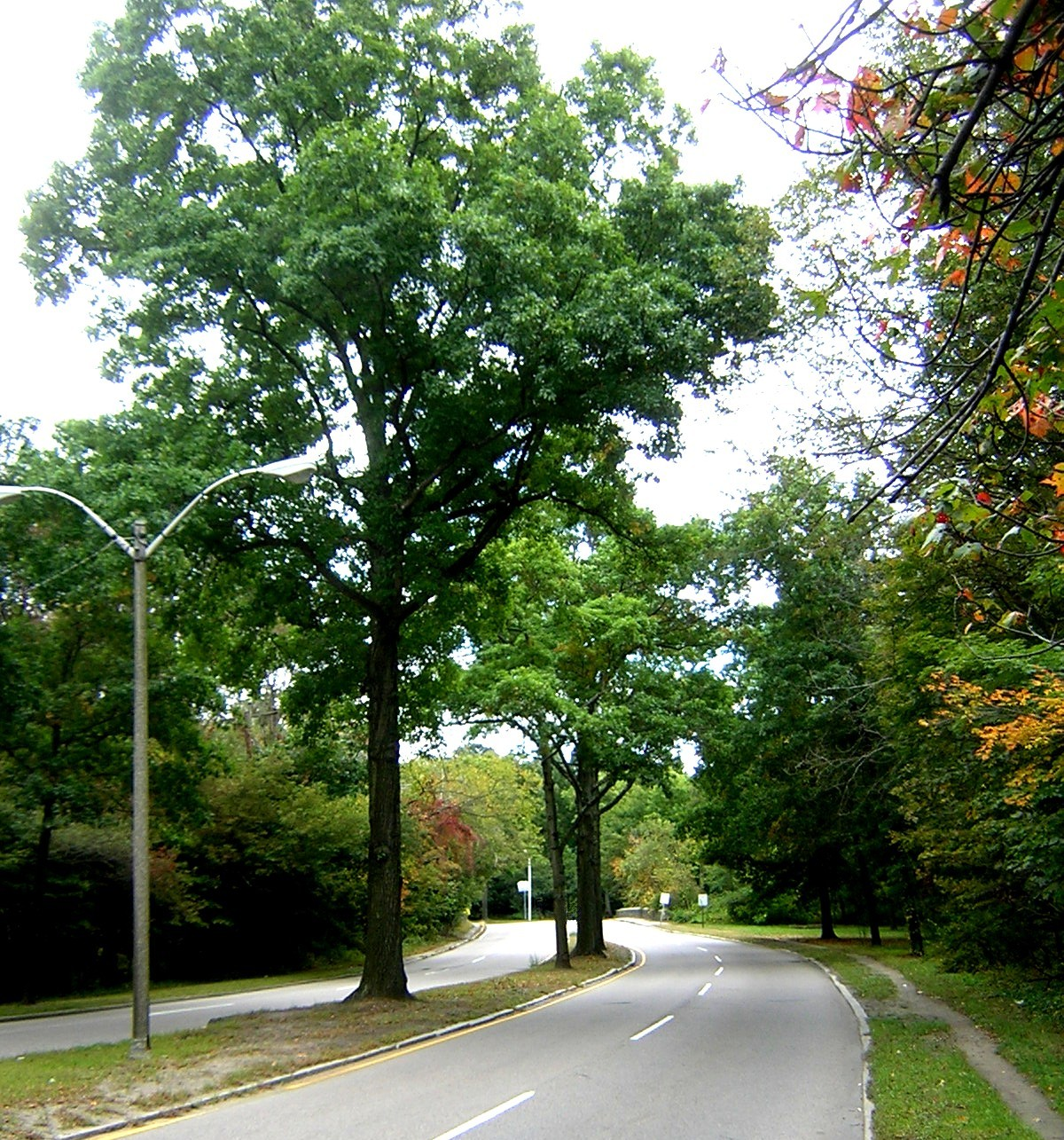 Neponset Valley Parkway, Massachusetts. Taken standing in Boston looking into Milton. The stone walls on either side in the distance are the railings of Paul's Bridge, which crosses the Neponset River, the border between the two.